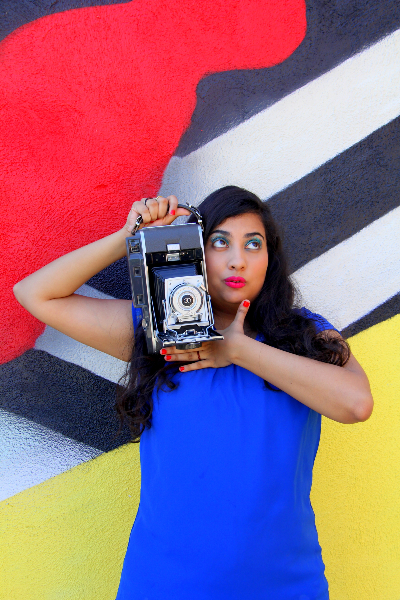 Promo photo of Minoti Vaishnav from "Mix It Up" (2015).